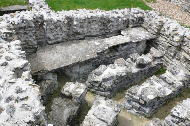 Dorchester Roman Town House Hypocaust. This shows the under floor heating system used in part of the house.Some of the stone floor flags are still in place supported on piers. The hot air circulated under the floor and then passed up the walls in chimneys which can be seen as grooves in the walls.